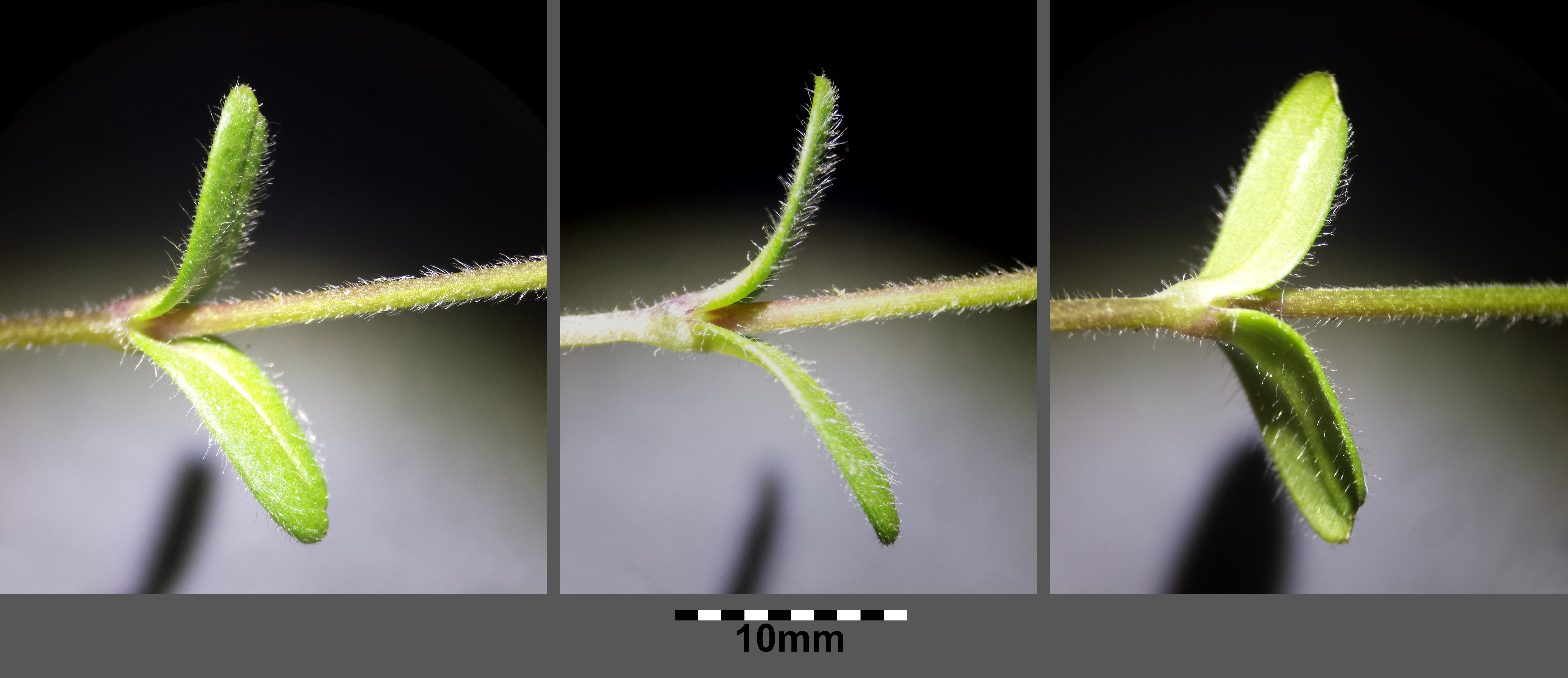 Stipe with sessile leaves Taxonym: Cerastium holosteoides ss Fischer et al. EfÖLS 2008 ISBN 978-3-85474-187-9 Location: near Niederhollabrunn, district Korneuburg, Lower Austria - ca. 350 m a.s.l. Habitat: wine yard